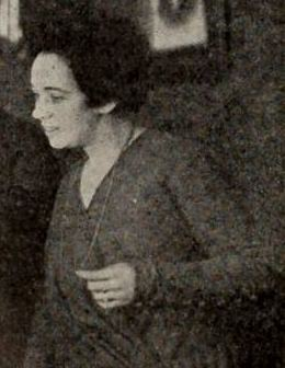 Ethel Wright in a still from the American drama film Bolshevism on Trial (1919).